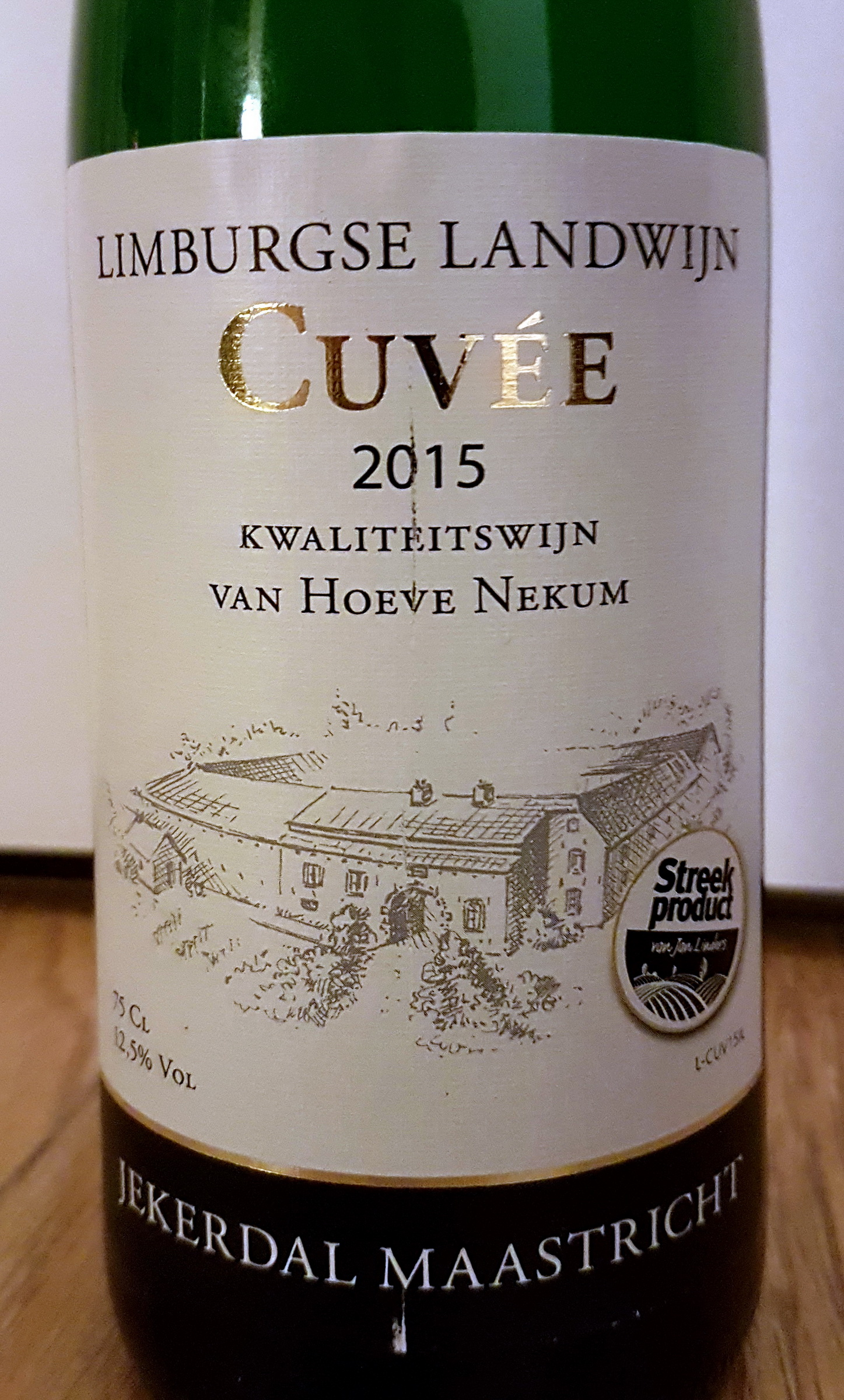 White wines of the Netherlands: a Cuvée 2015 Limburgse landwijn (vin de pays) from Hoeve Nekum in the Jeker Valley, south of Maastricht.